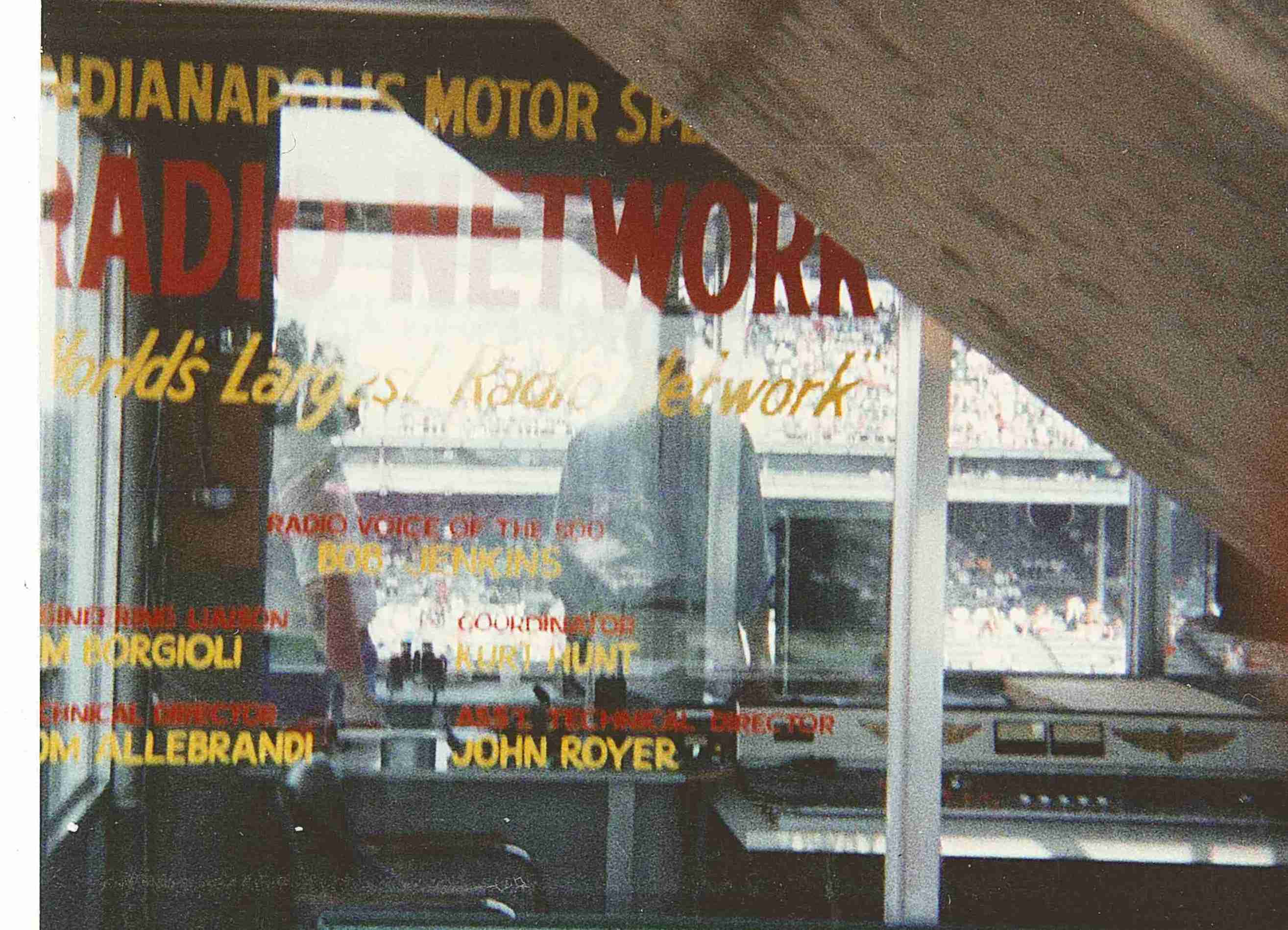 Indianapolis Motor Speedway Radio Network booth (Bob Jenkins inside) in 1991. Located inside the steel & glass Master Control Tower at the Indianapolis Motor Speedway.